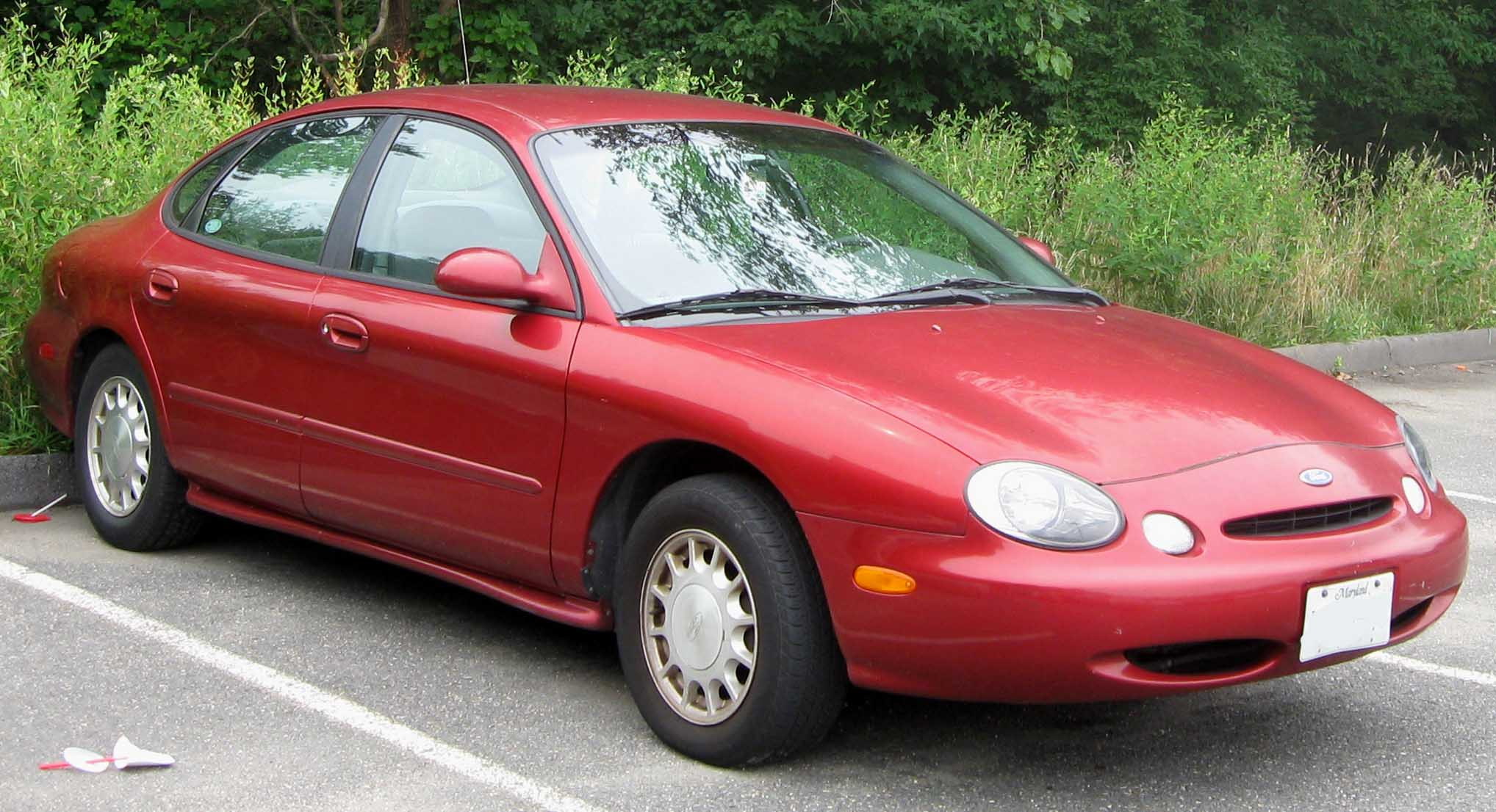 1996-1997 Ford Taurus photographed in College Park, Maryland, USA.